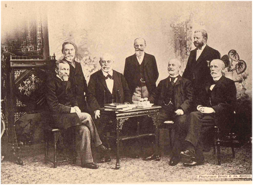 Supervisory Board of the Cluj Academy of Commerce Standing (from left to right): Zsigmond Gámán. Gusztáv Groisz, Sándor Kiss (director) Sitting (from left to right): Dezső Sigmond (Vice-Chairman), Henrik Finály (Chairman), Bogdán Korbuly, Géza Albach